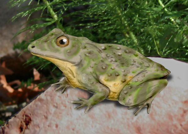 Vieraella